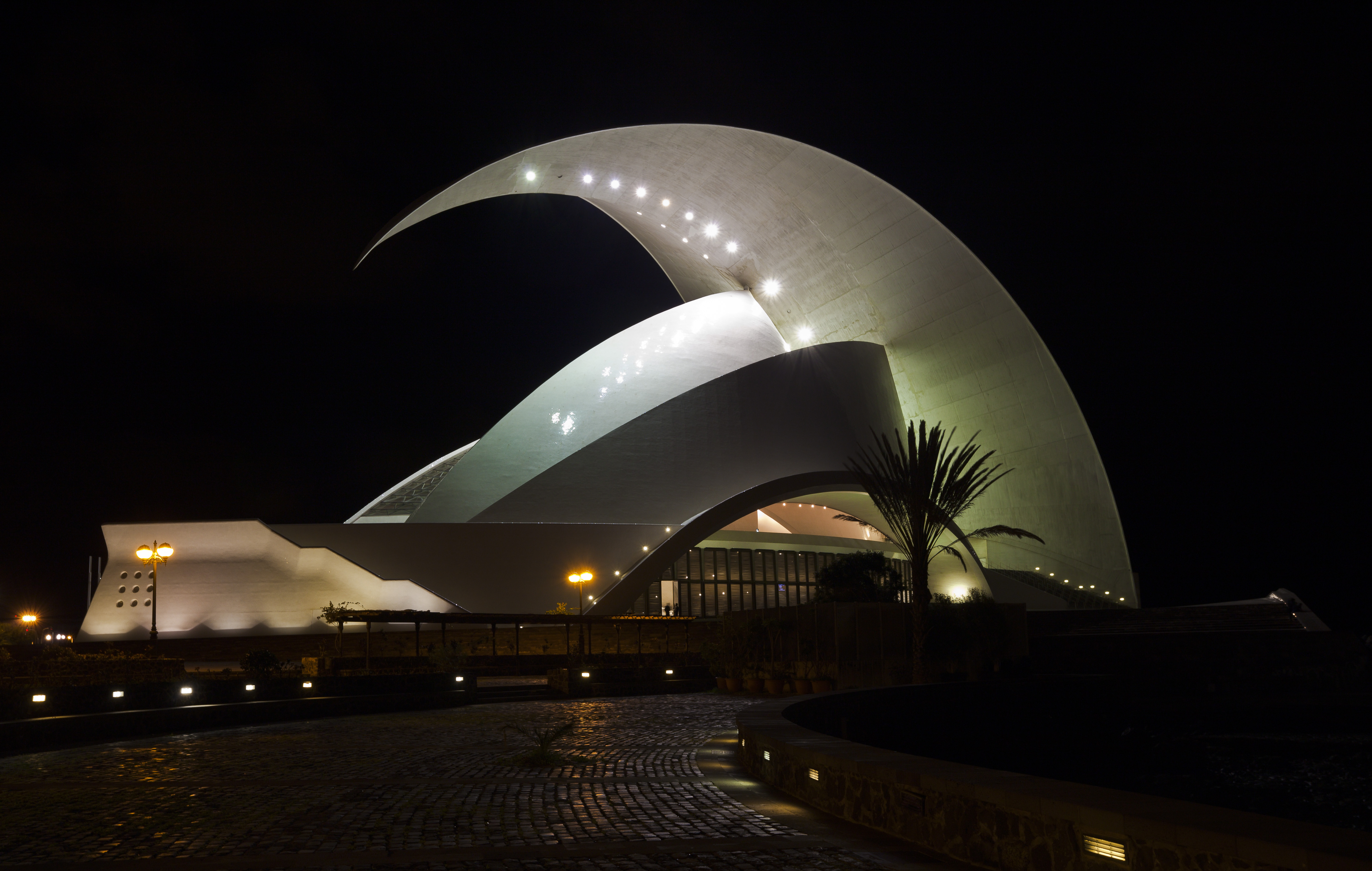 Auditorium of Tenerife, Santa Cruz de Tenerife, Spain